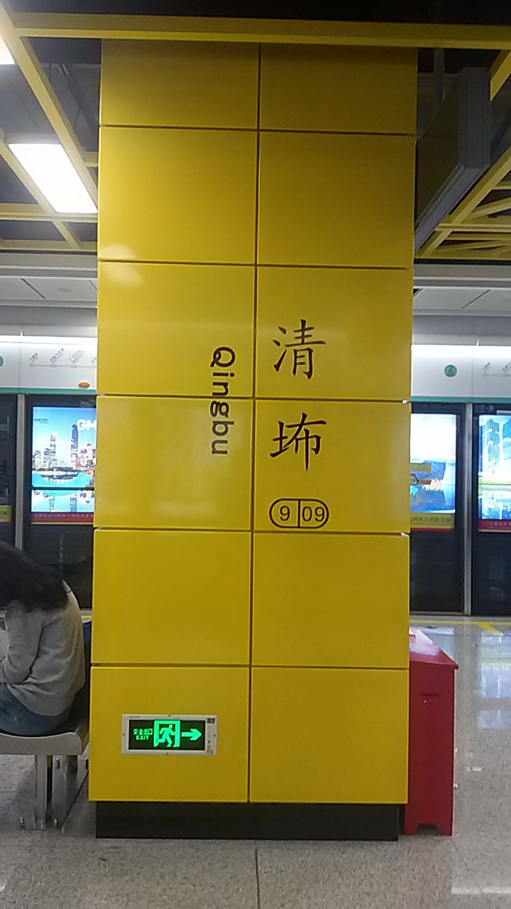 WORD on PILLAR for Qingbu Station in Guangzhou Metro.